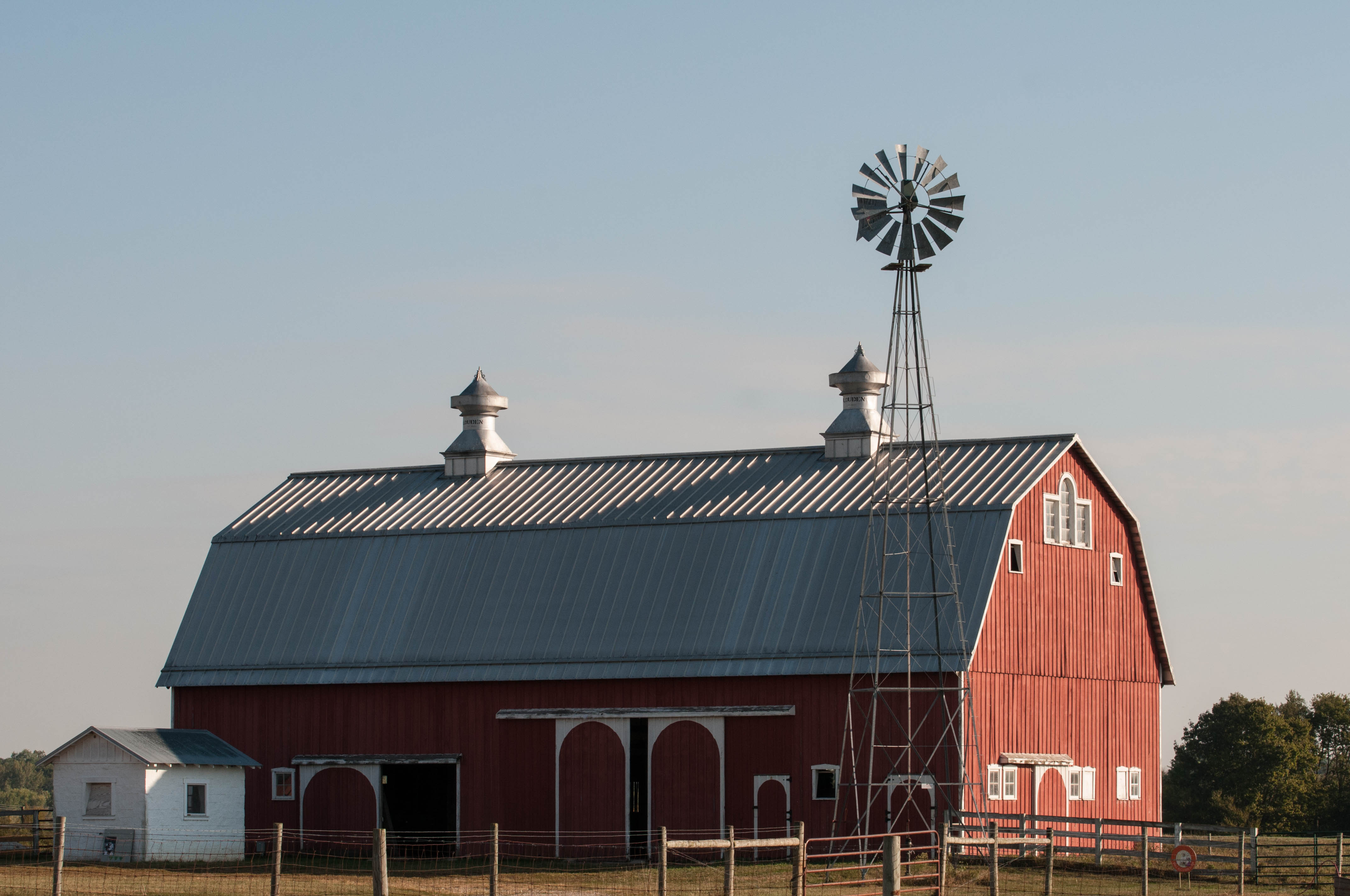 Prophetstowns Barn